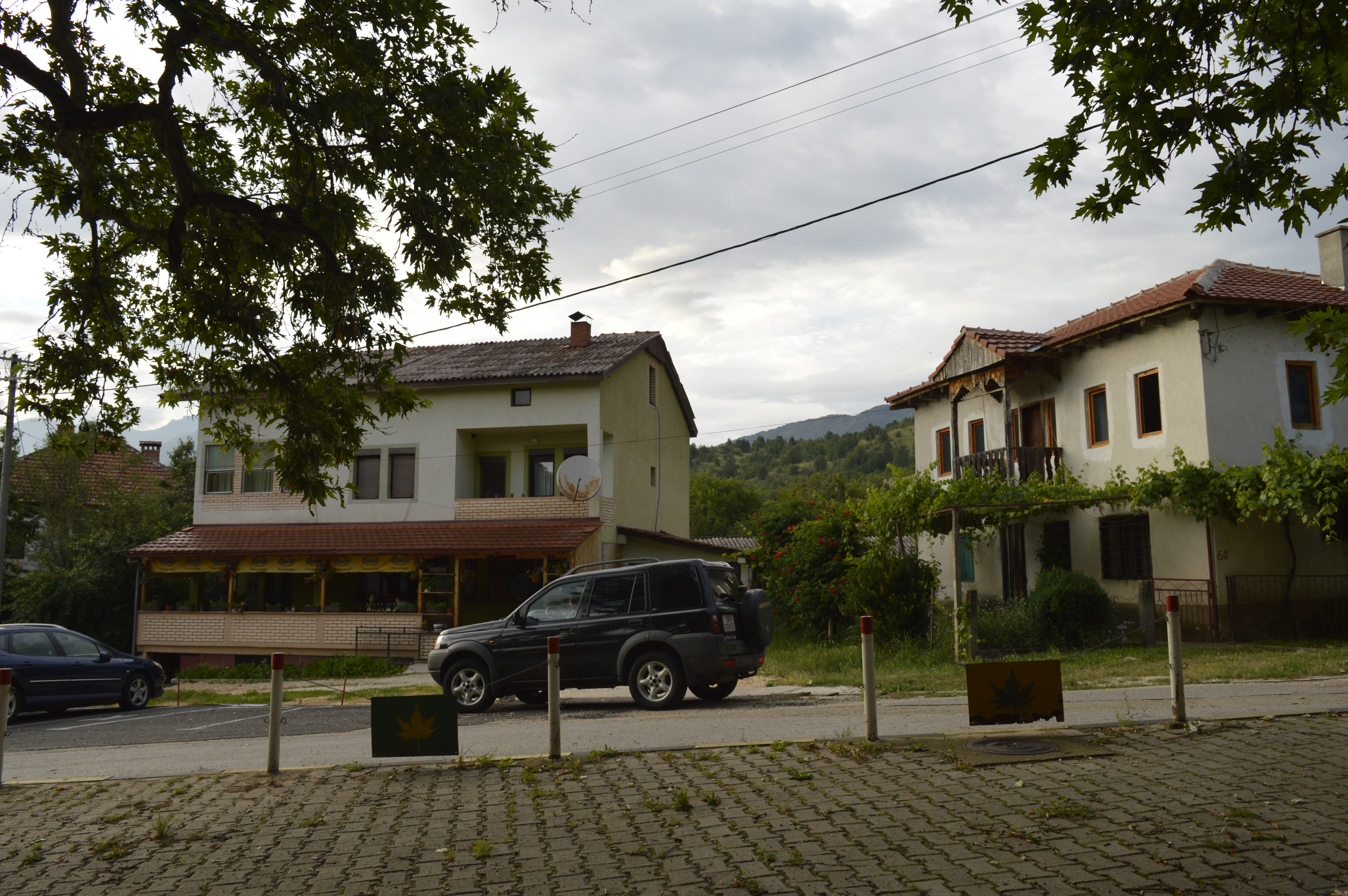 Center of the village Teovo